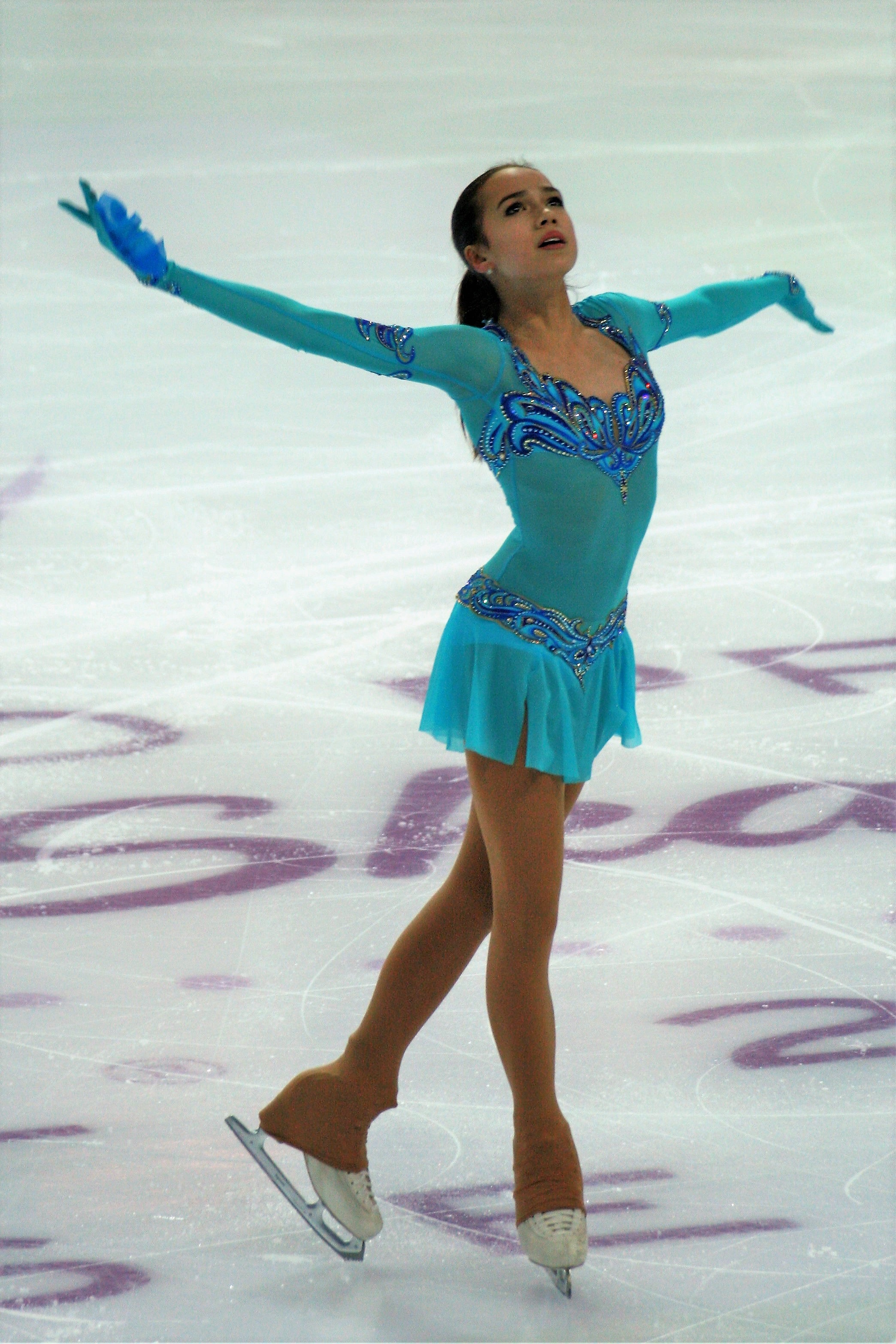 Alina Zagitova at the Junior Grand Prix Final 2016 - Short program